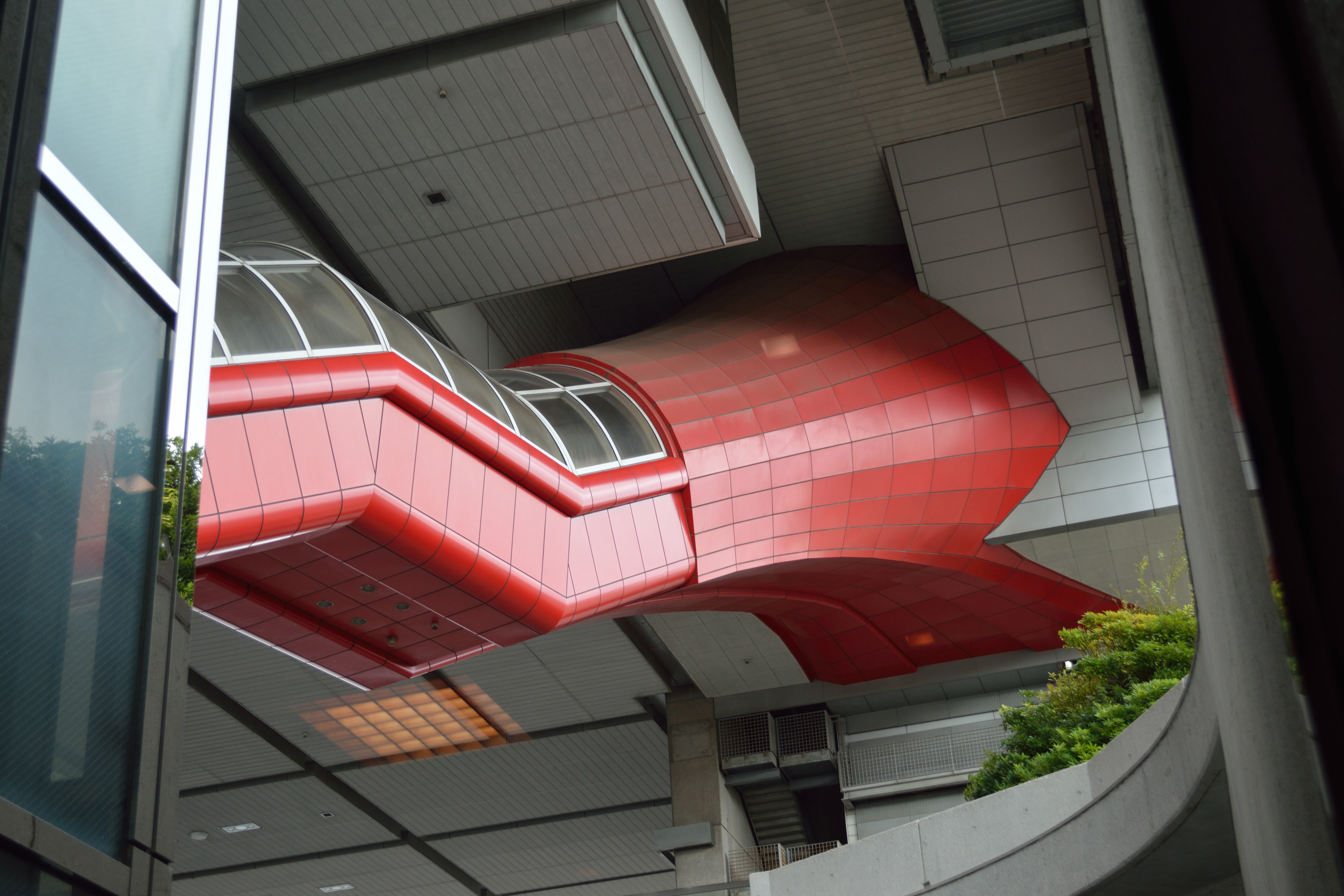 Escalator underneath the Edo-Tokyo Museum, taking visitors from external area under the building to the internal entrance.